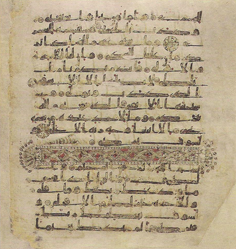 Topkapı manuscript of the Quran, written around 800 CE, folio with Sura 92:8-93:6